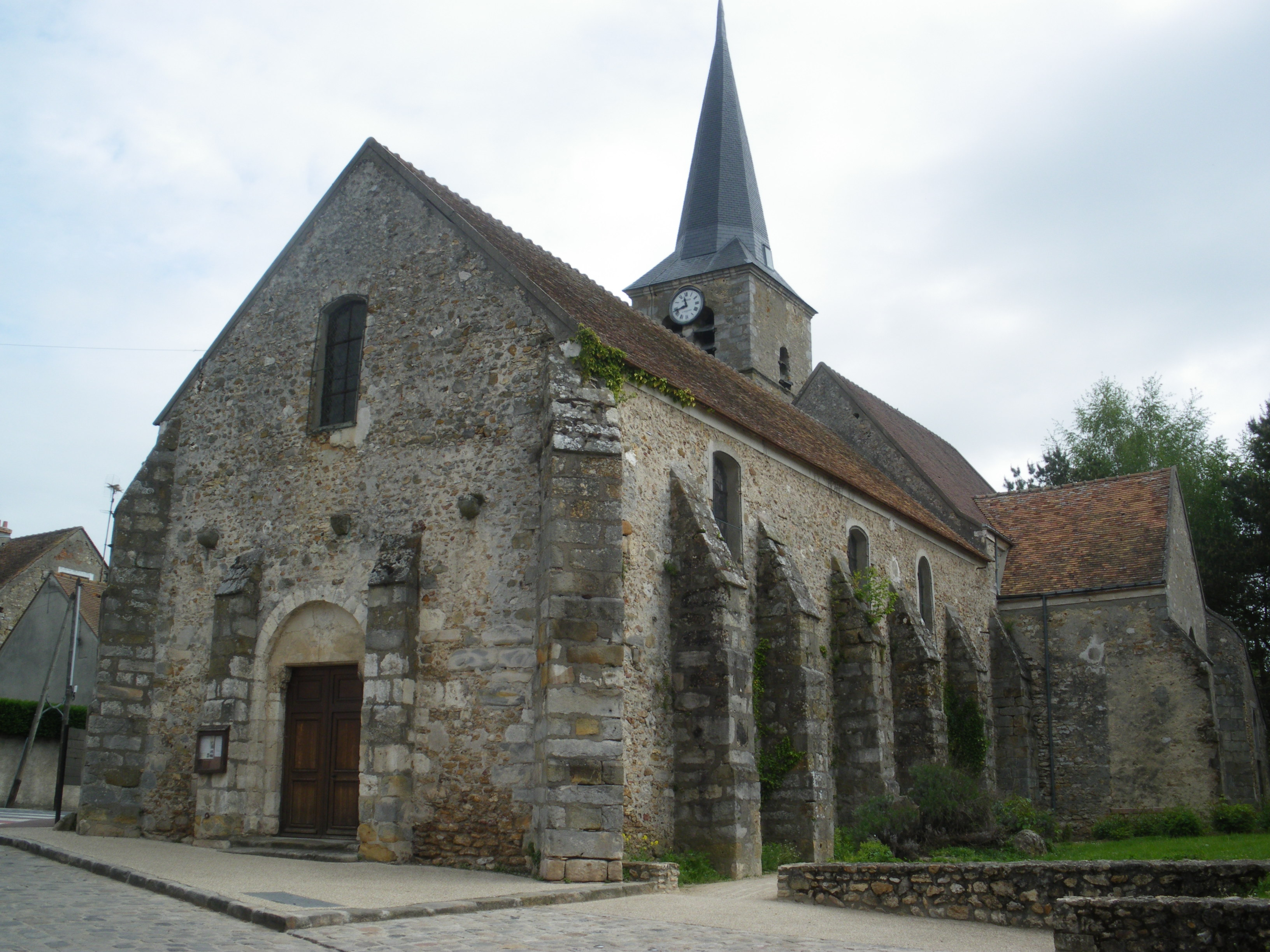 Angervilliers Church, Essonne, France